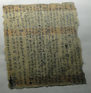 A letter written by Jiang Zhuyun (Chinese: 江竹筠; 20 August 1920－14 November 1949) She was a Chinese revolutionary martyr